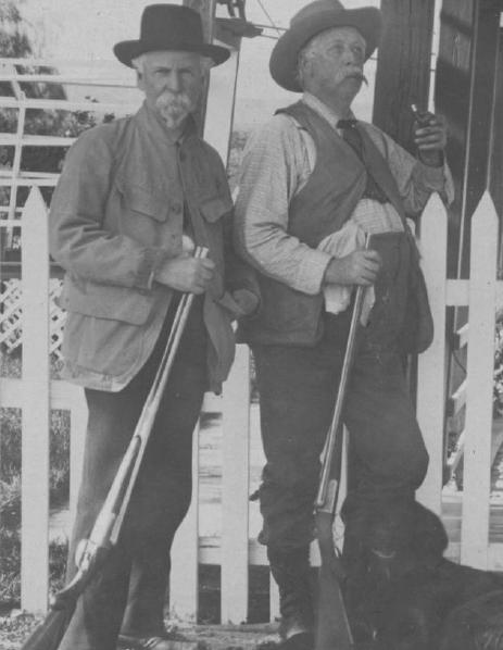 Captain Charles T. Hinde and President Taft at Captain Hinde's Ranch in California.